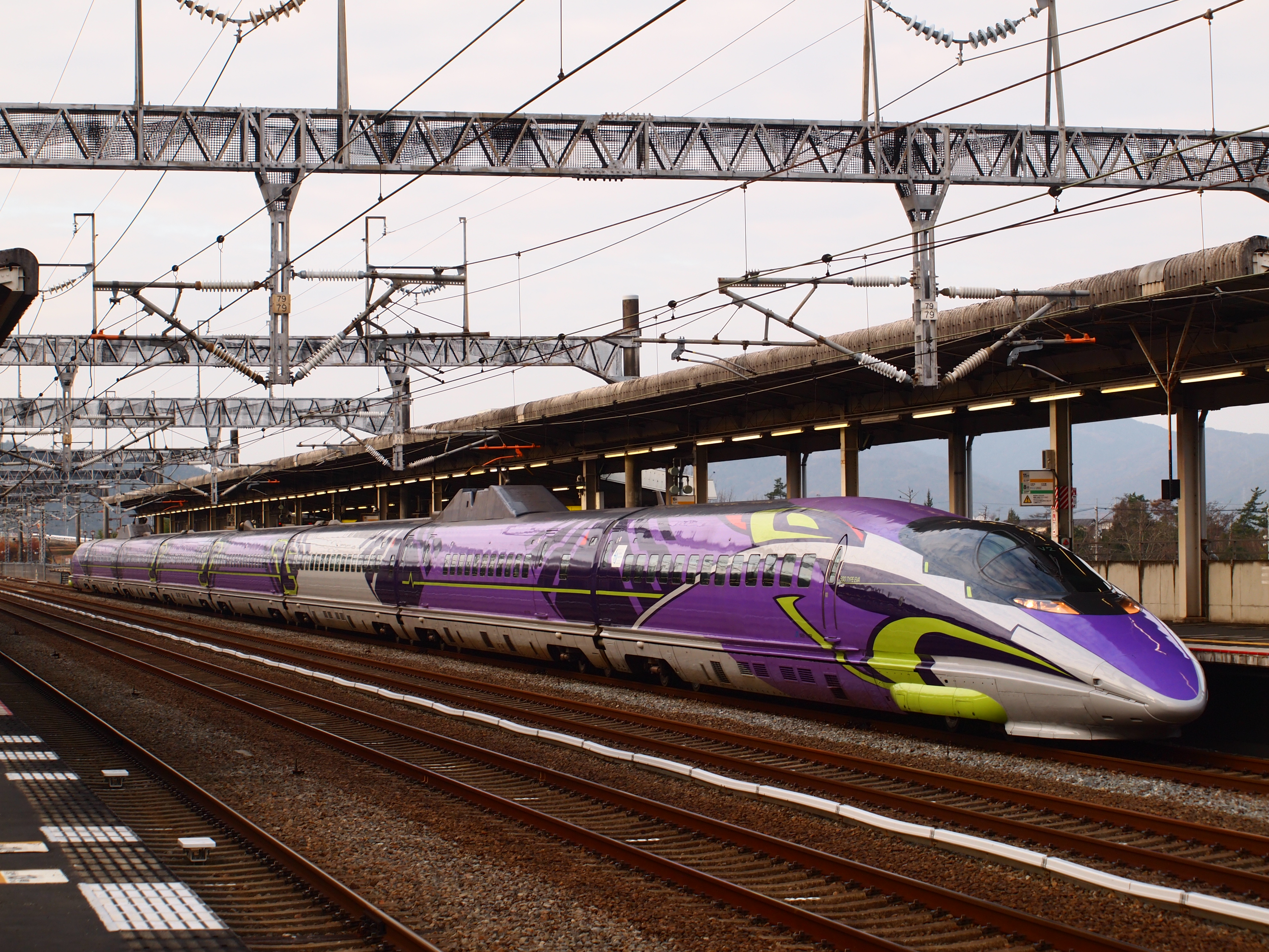 JR West 500 series shinkansen set V2 in special "500 TYPE EVA" livery at Higashi-Hiroshima Station on a Kodama service